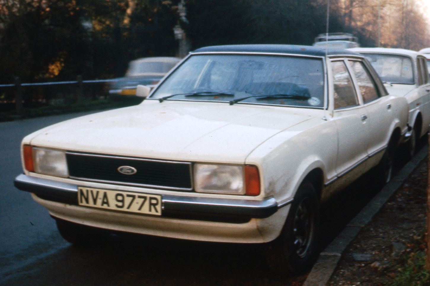 Ford Cortina Mk IV when fairly new